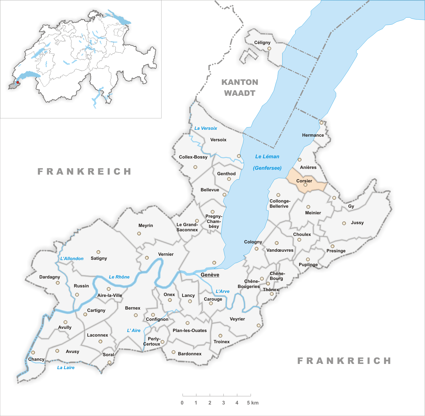 Municipality Corsier